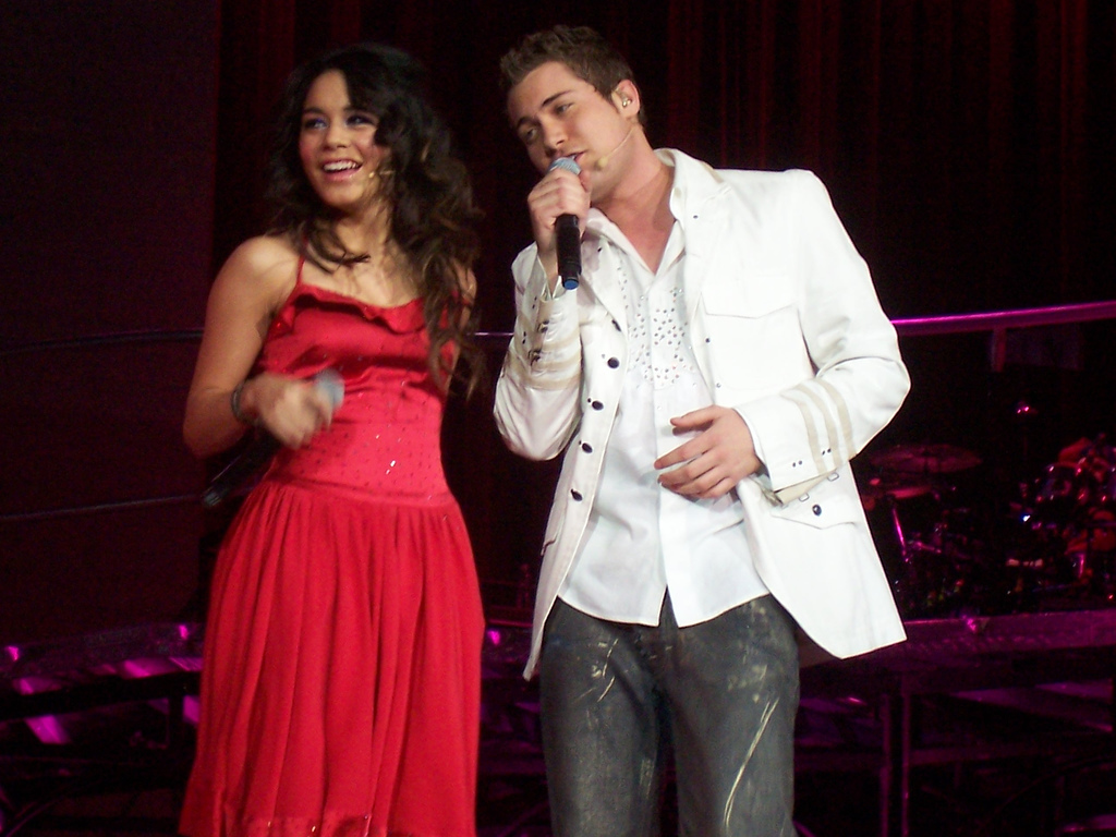 Breaking Free